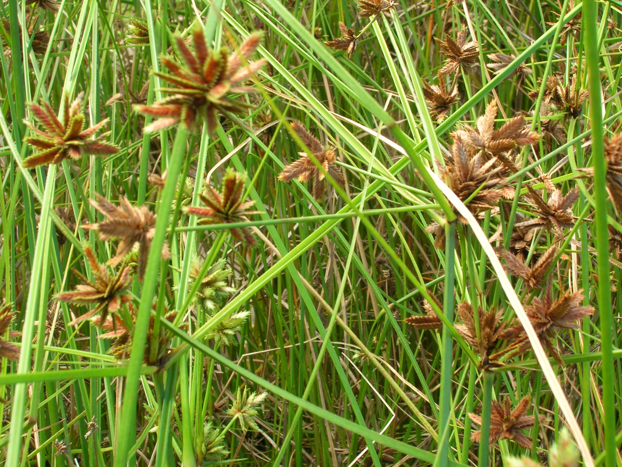 Cyperus trachysanthos (leaves and seed heads). Location: Maui, Hoolawa Farms